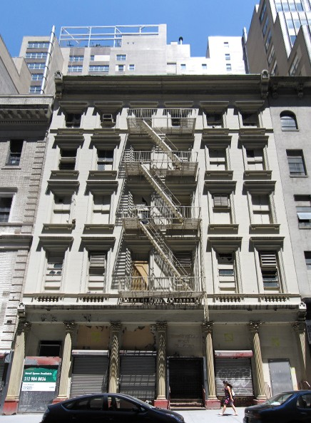 45 Park Place in Manhattan, the former Burlington Coat Factory.